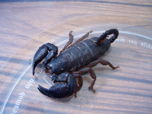 Photo of my own Opisthacanthus rugiceps by 82.233.123.121.